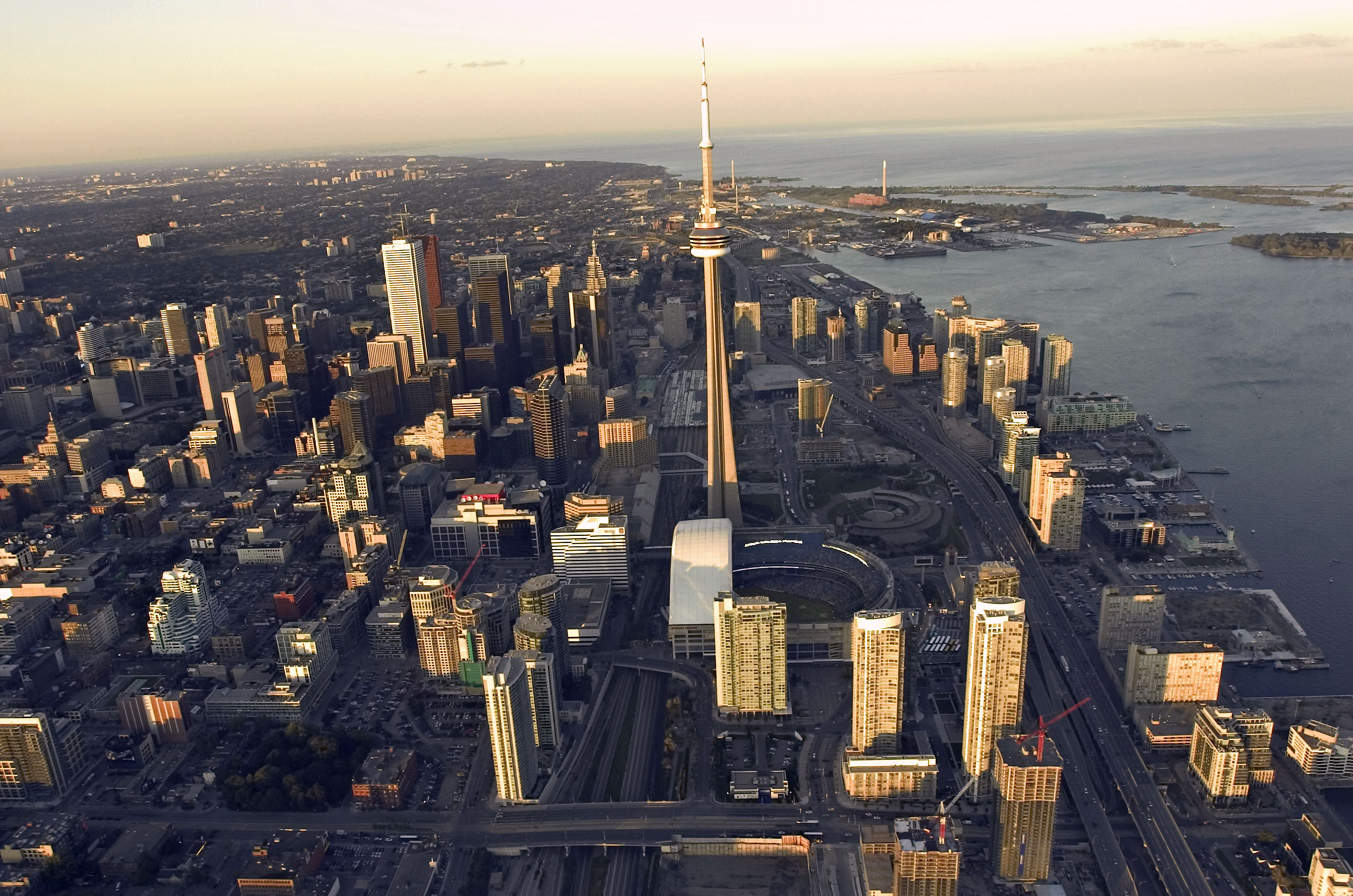 Toronto Skyline